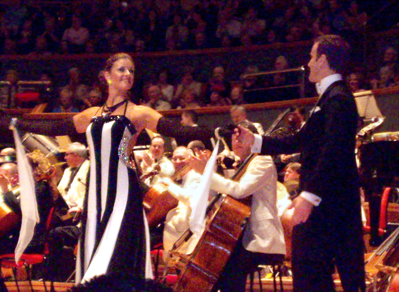 Professional dancers, Anton du Beke (born Anthony Beke) and dance partner Erin Boag, with the CBSO at Symphony Hall, Birmingham, England on 27 January 2008.